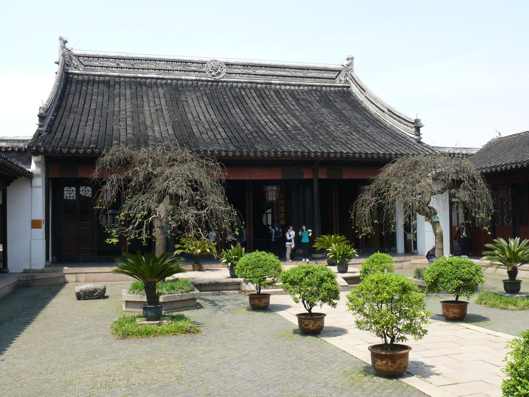 Li Xiucheng's mansion in Suzhou (Jiangsu, China).